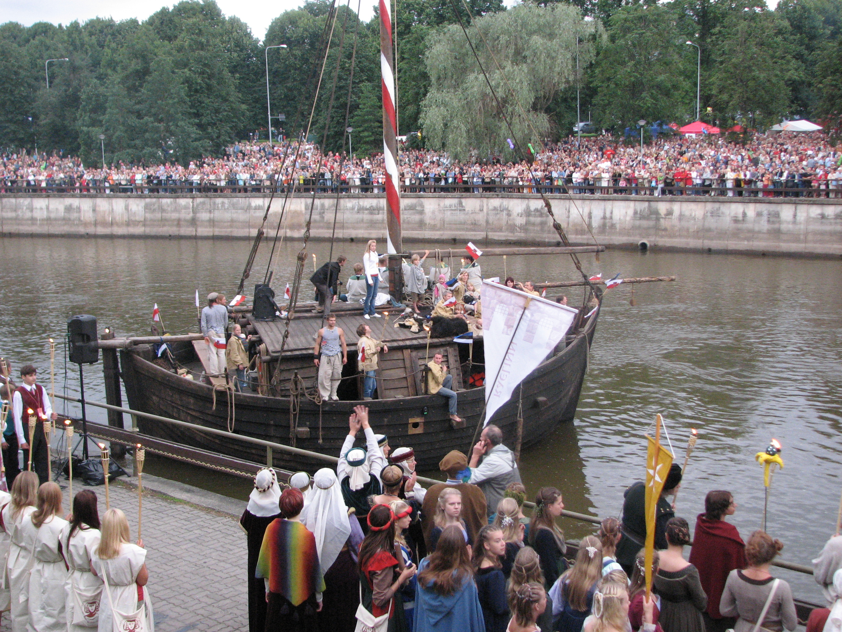 Hanseatic Days of Tartu 2005, Estonia